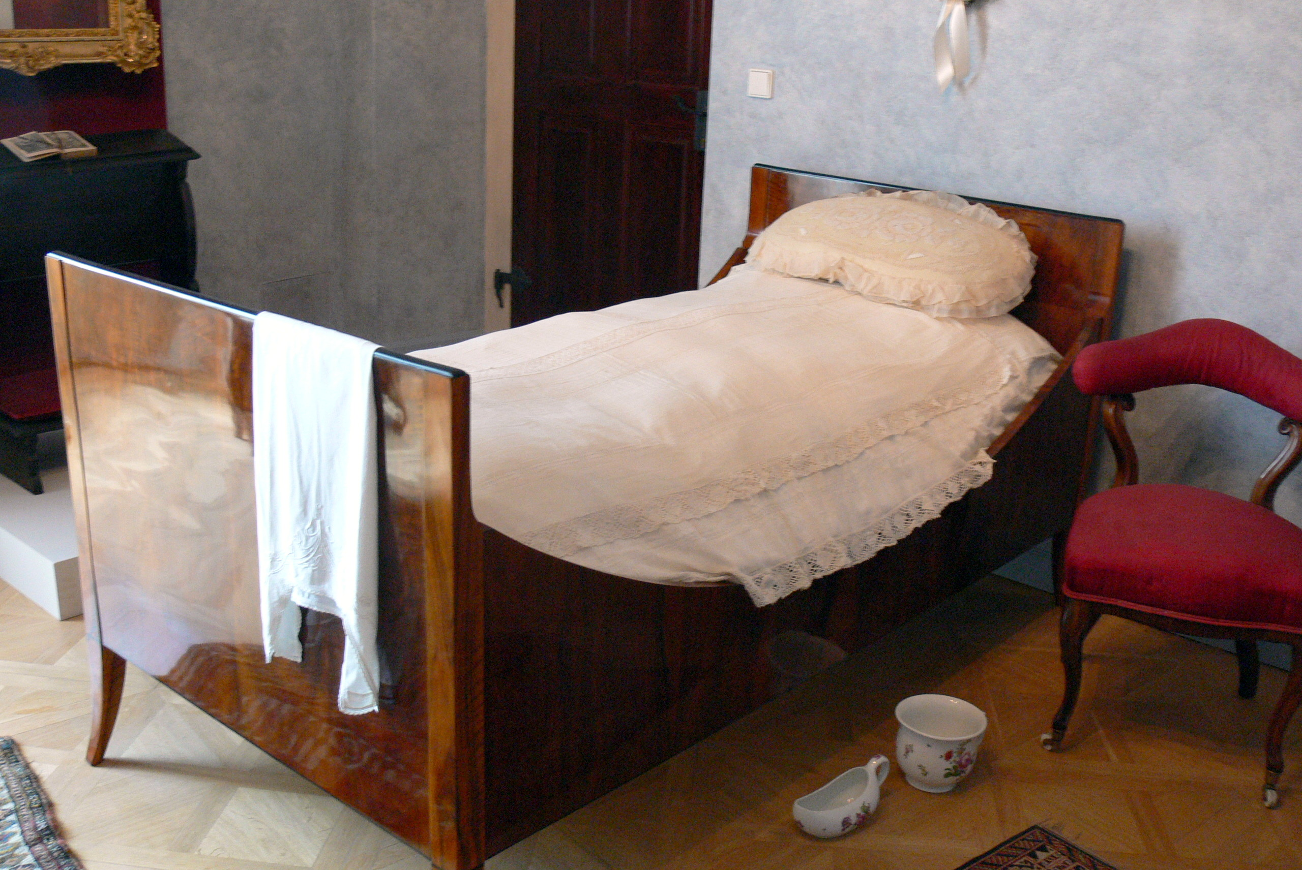 Rožmberk palace ( Prague castle ). Sleeping room - bed of a gentlewoman (18th century)